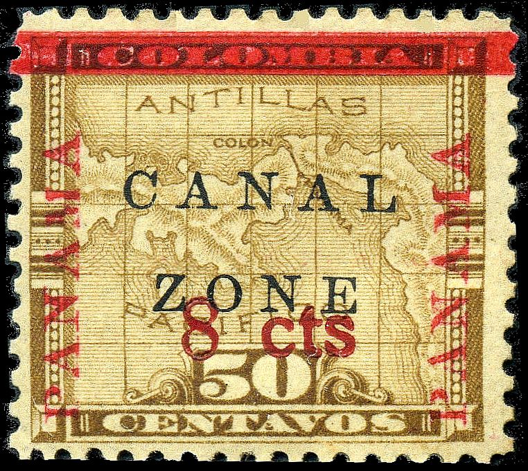 Canal Zone-50/8c, 1904 Issue.jpg